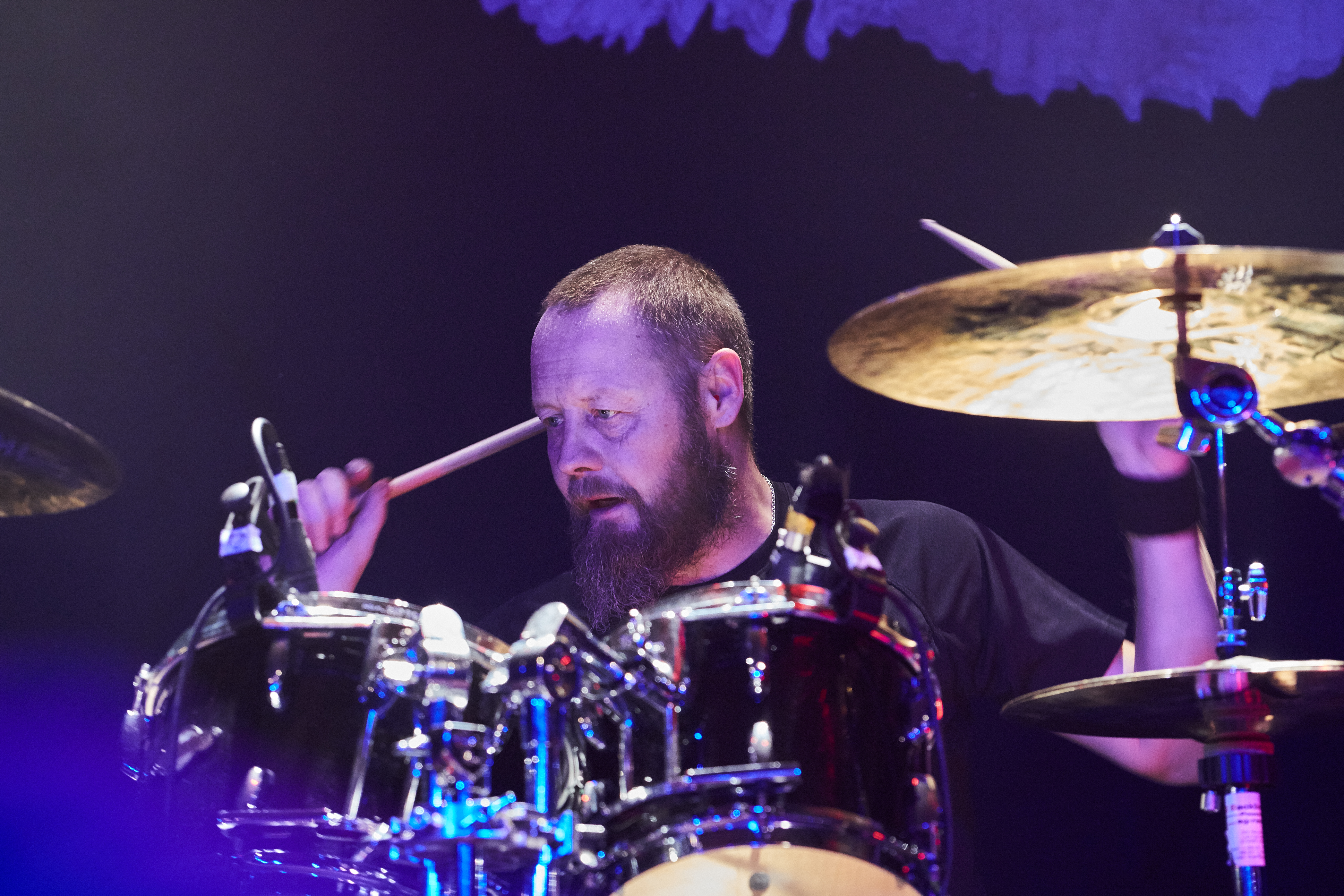 British band Candlemass at Hammer of Doom Festival, Würzburg, Posthalle, 21.11.2015 Festivalsommer This photo was created with the support of donations to Wikimedia Deutschland in the context of the CPB project "Festival Summer". Personality rights warning Although this work is freely licensed or in the public domain, the person(s) shown may have rights that legally restrict certain re-uses unless those depicted consent to such uses. In these cases, a model release or other evidence of consent could protect you from infringement claims.